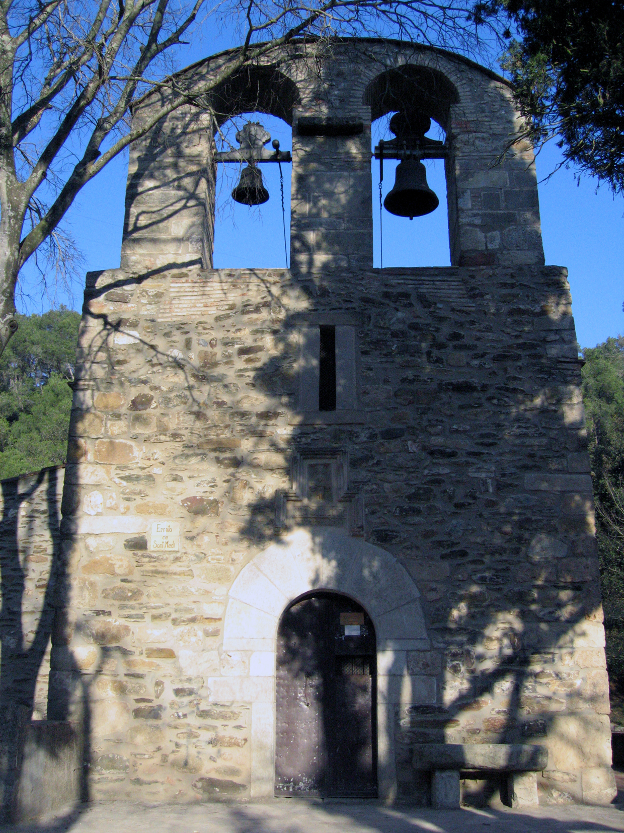 Chapel of Sant Medir in Sant Cugat del Vallès (Catalonia).